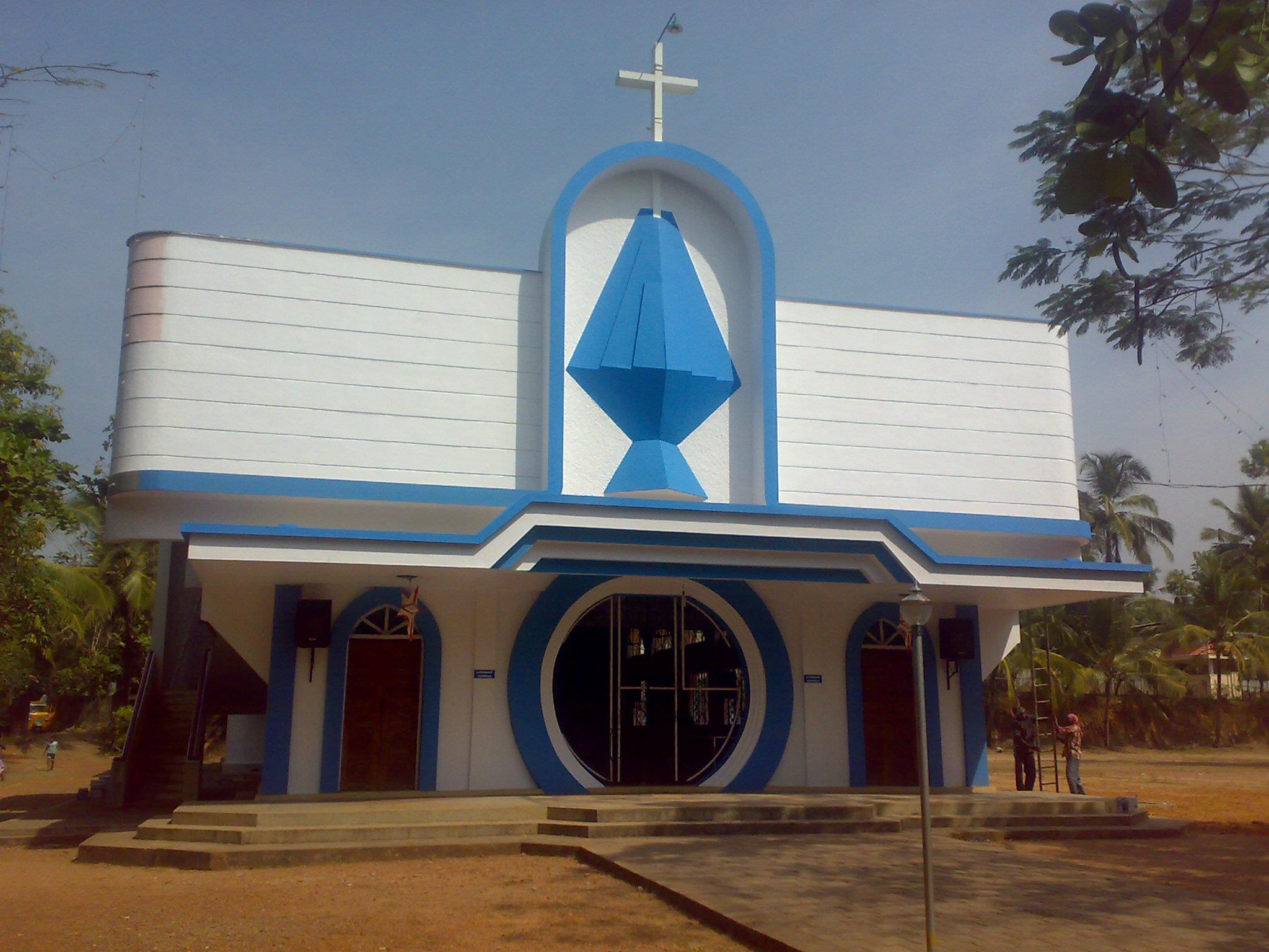 St.John The Apostle Church, the first church in India with St.John The Apostle as the Patron Saint.